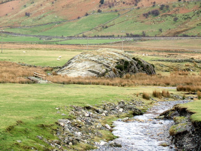 Roche moutonnée in Nant Ffrancon. Roche moutonnée in the Ogwen Valley. Wales is one of the most southerly points in the UK to have experienced the ice age. These glaciers carved out the spectacular glacial trough valleys like this one. Large boulders on the valley floor were deposited as the glacier receded.